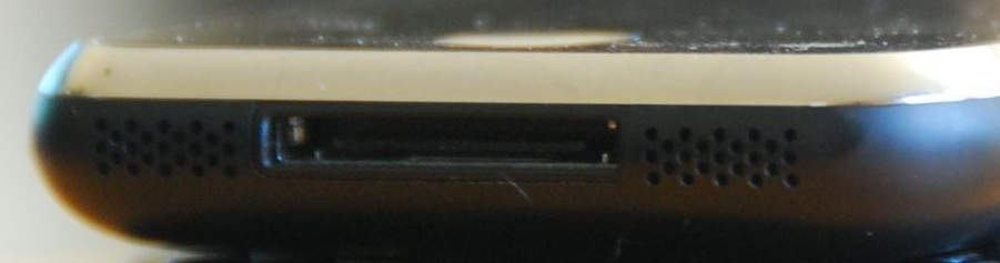 The bottom (base) of in Apple iPhone (original).